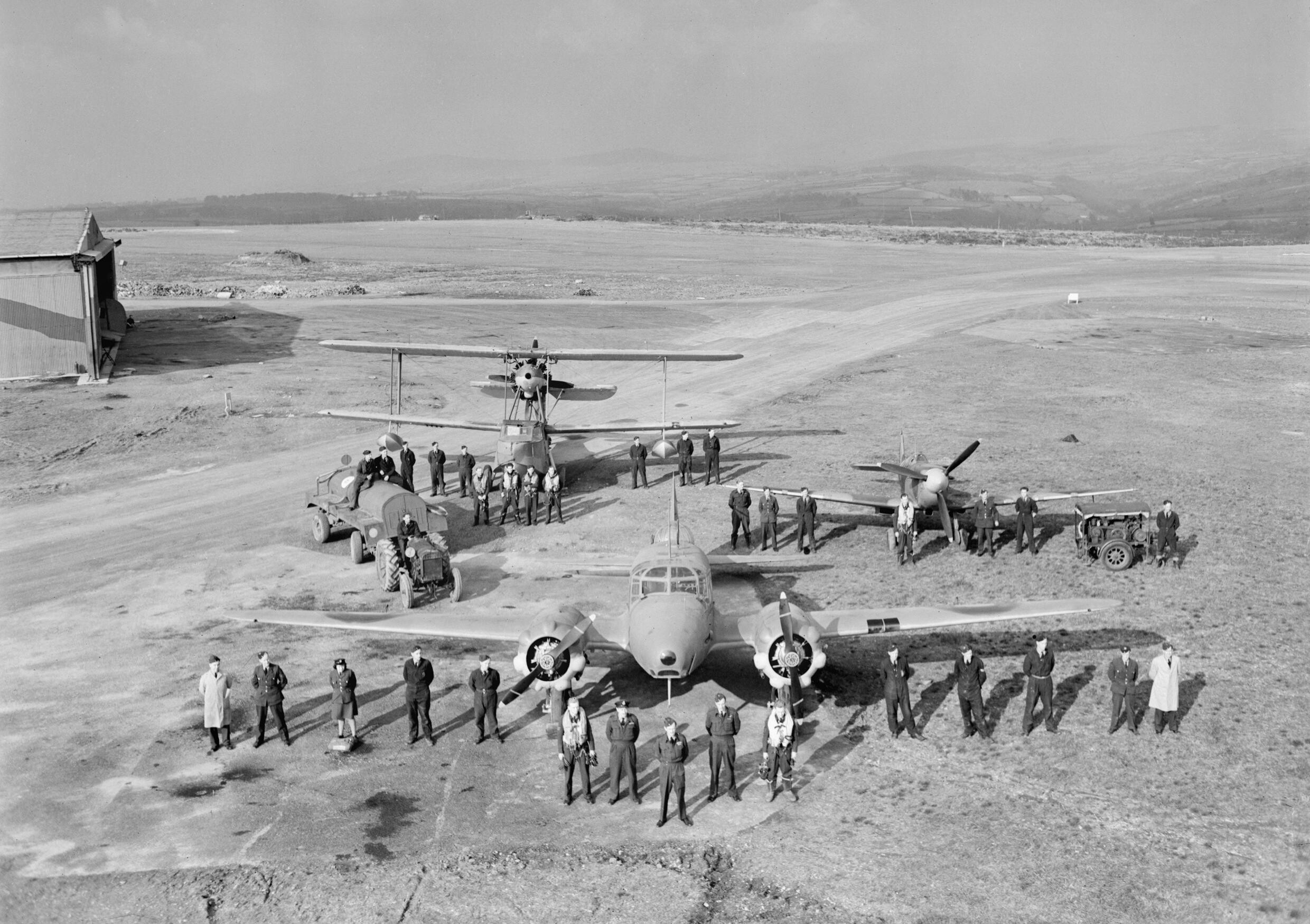 Royal Air Force Fighter Command, 1939-1945. Personnel and aircraft of No. 276 Squadron RAF assembled at Harrowbeer, Devon, to show the resources needed to mount a single air-sea rescue sortie. The aircraft are, in front, an Avro Anson, a Supermarine Spitfire and, at the rear, a Supermarine Walrus. The Commanding Officer, Squadron Leader R F Hamlyn, formerly a fighter pilot with 13 confirmed aerial victories, stands in the foreground.